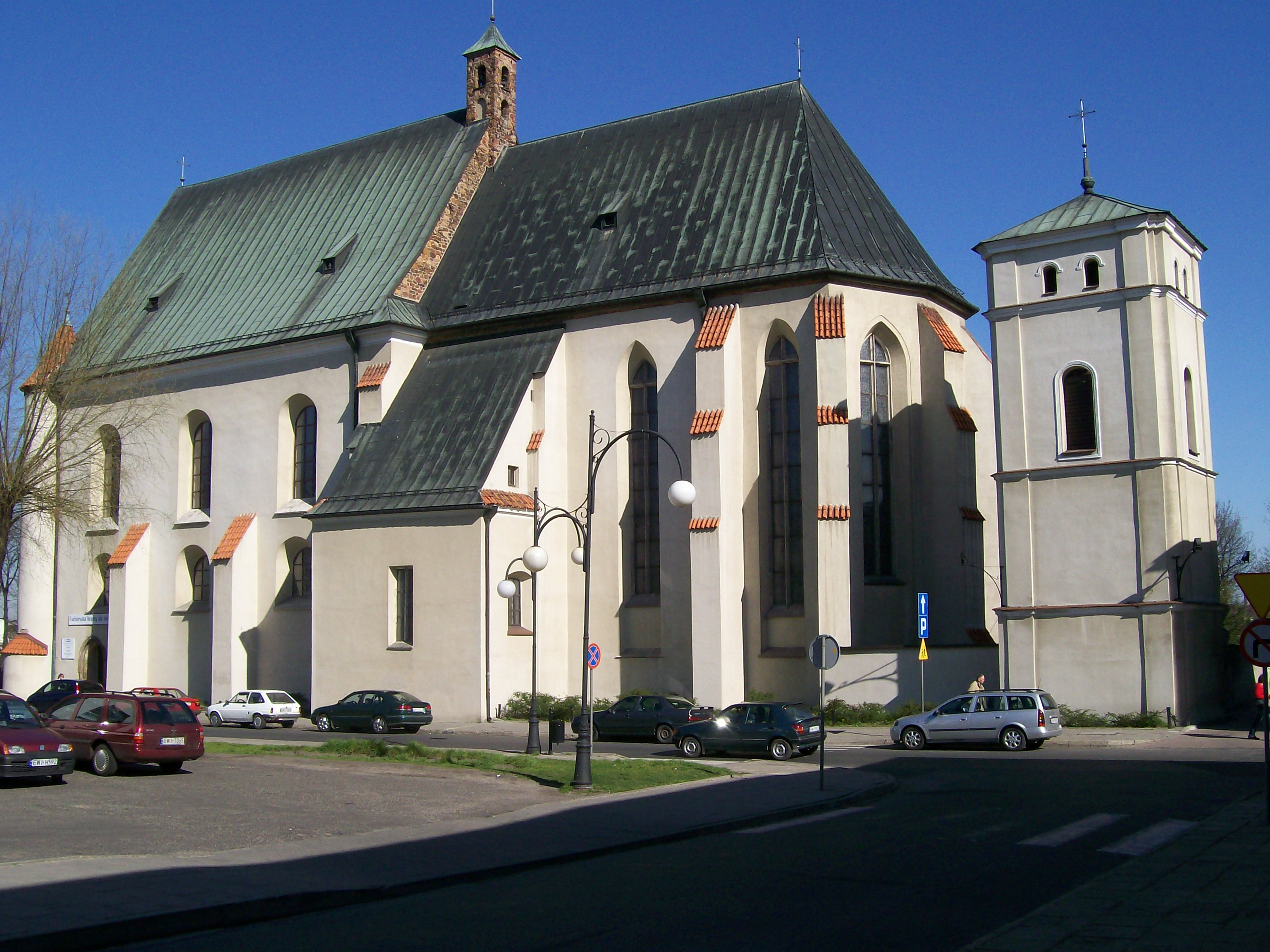 Church of St. Mary in Wieluń